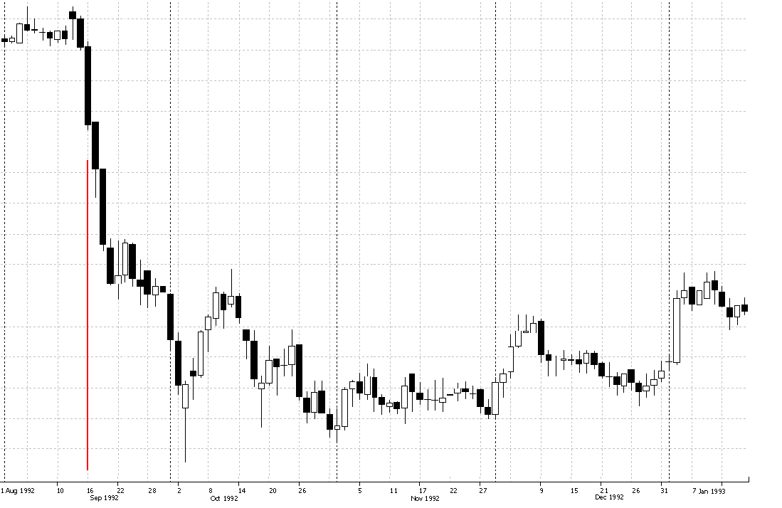 Charts day GBP/DEM 1992